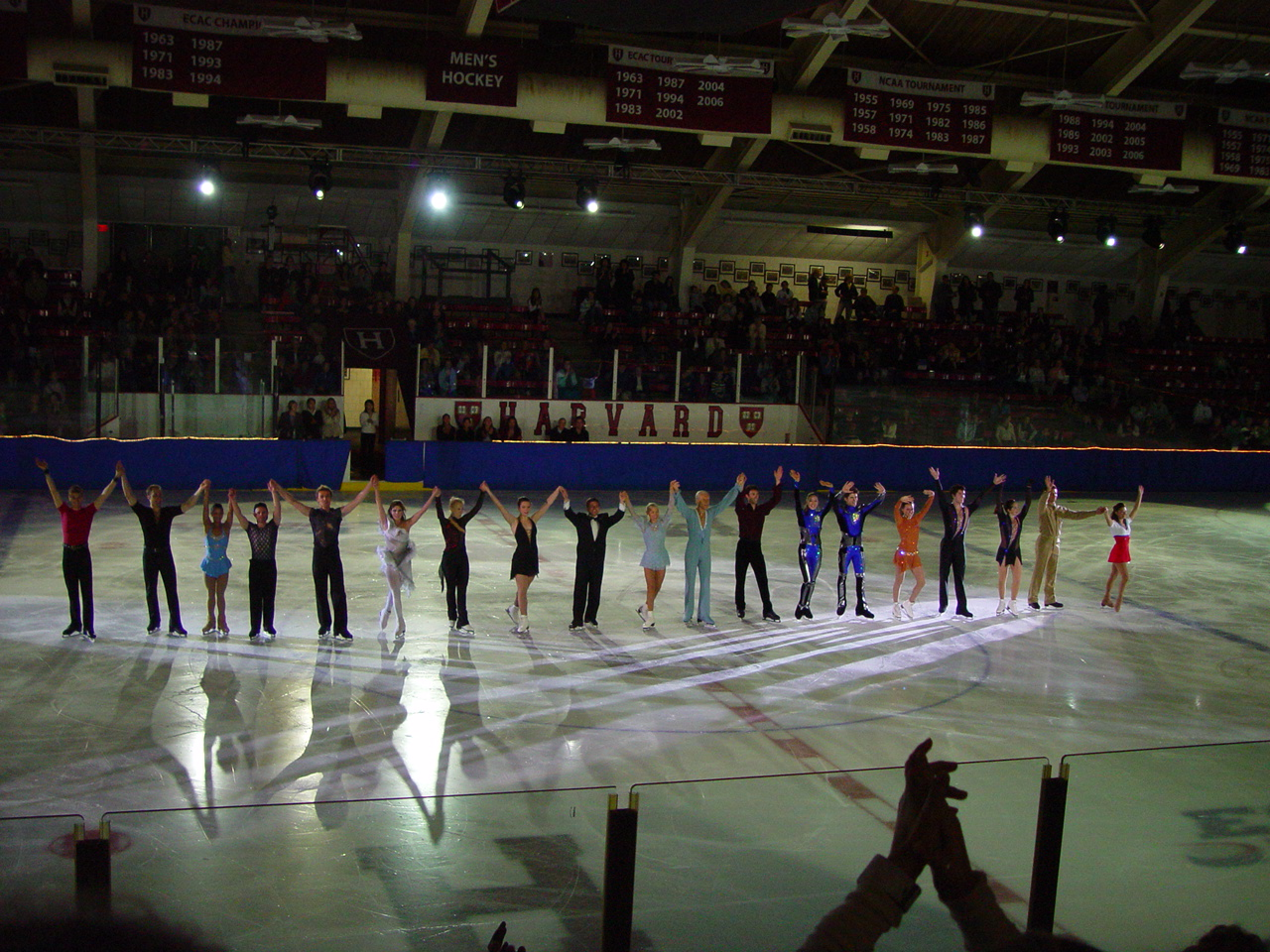 Cast of the 2007 show of An Evening with Champions. From left to right, the skaters are: Scott Smith Mark Ladwig Amanda Evora Dan Hollander Denis Petukhov Melissa Gregory Oksana Baiul Emily Hughes Paul Wylie Ludmila Protopopov Oleg Protopopov Matt Savoie Sinead Kerr John Kerr Juliana Cannarozzo Drew Meekins Julia Vlassov Fred Palascak Melanie Lambert